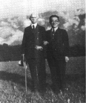 Hu Shih and his teacher John Dewey